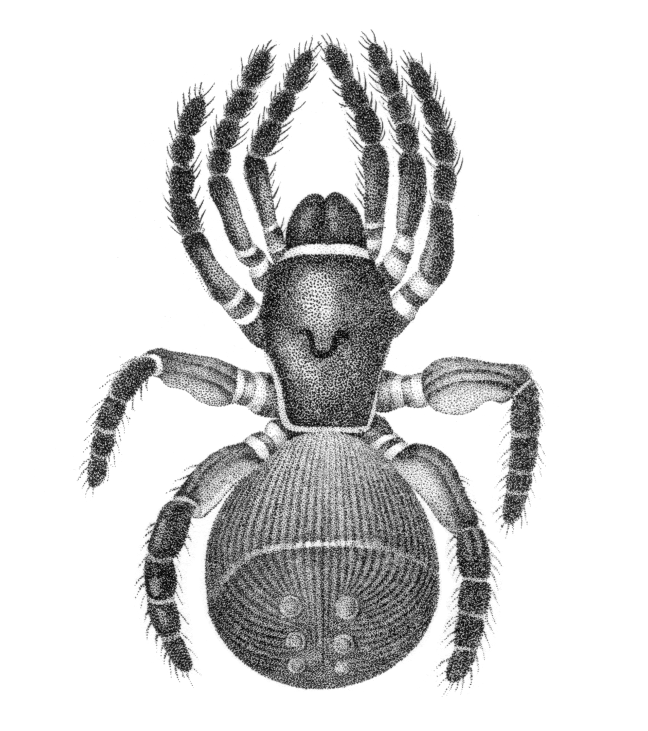 Hentz's original drawing of Mygale truncata (now Cyclocosmia truncata)